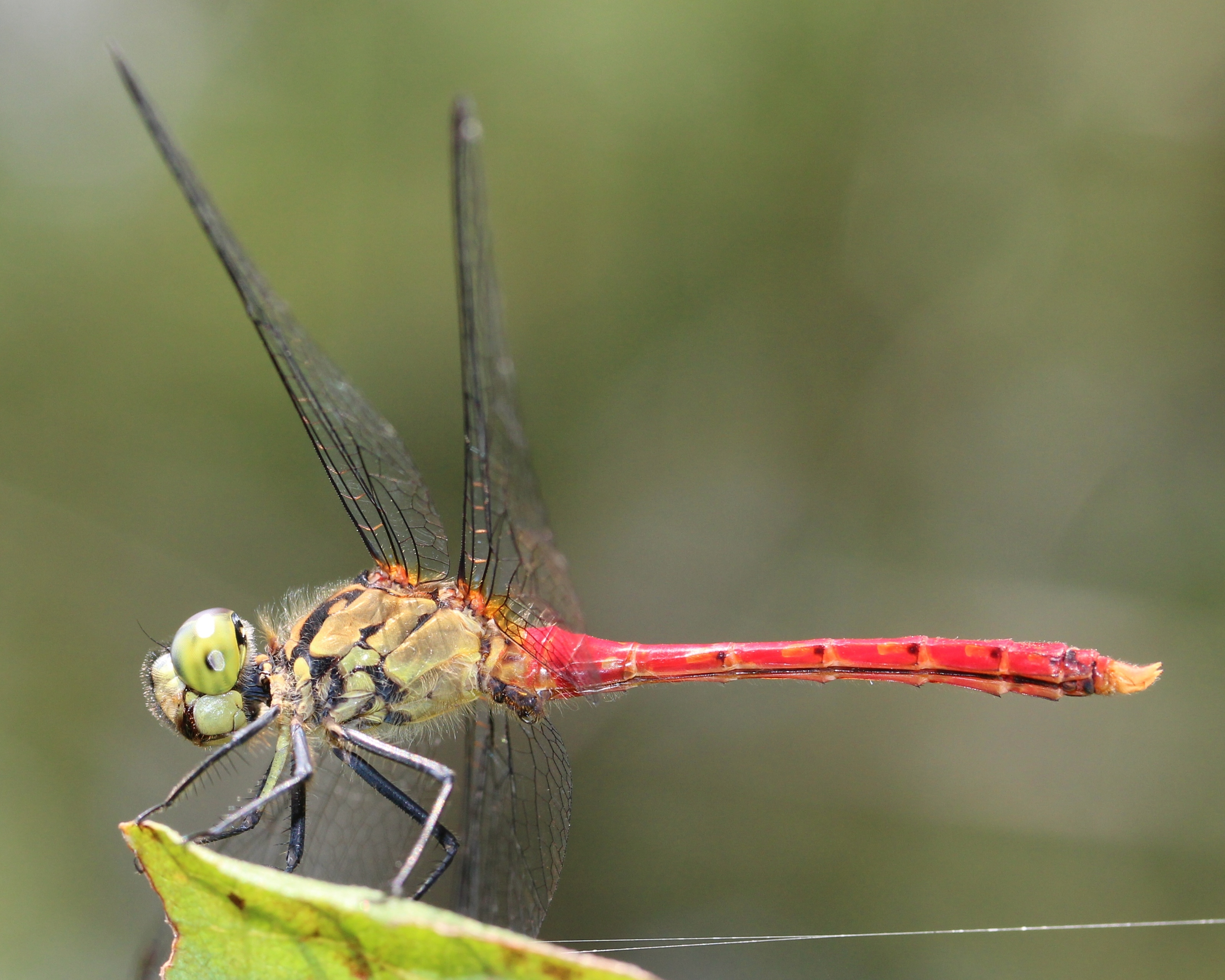 Sympetrum eroticum, male in Japan.